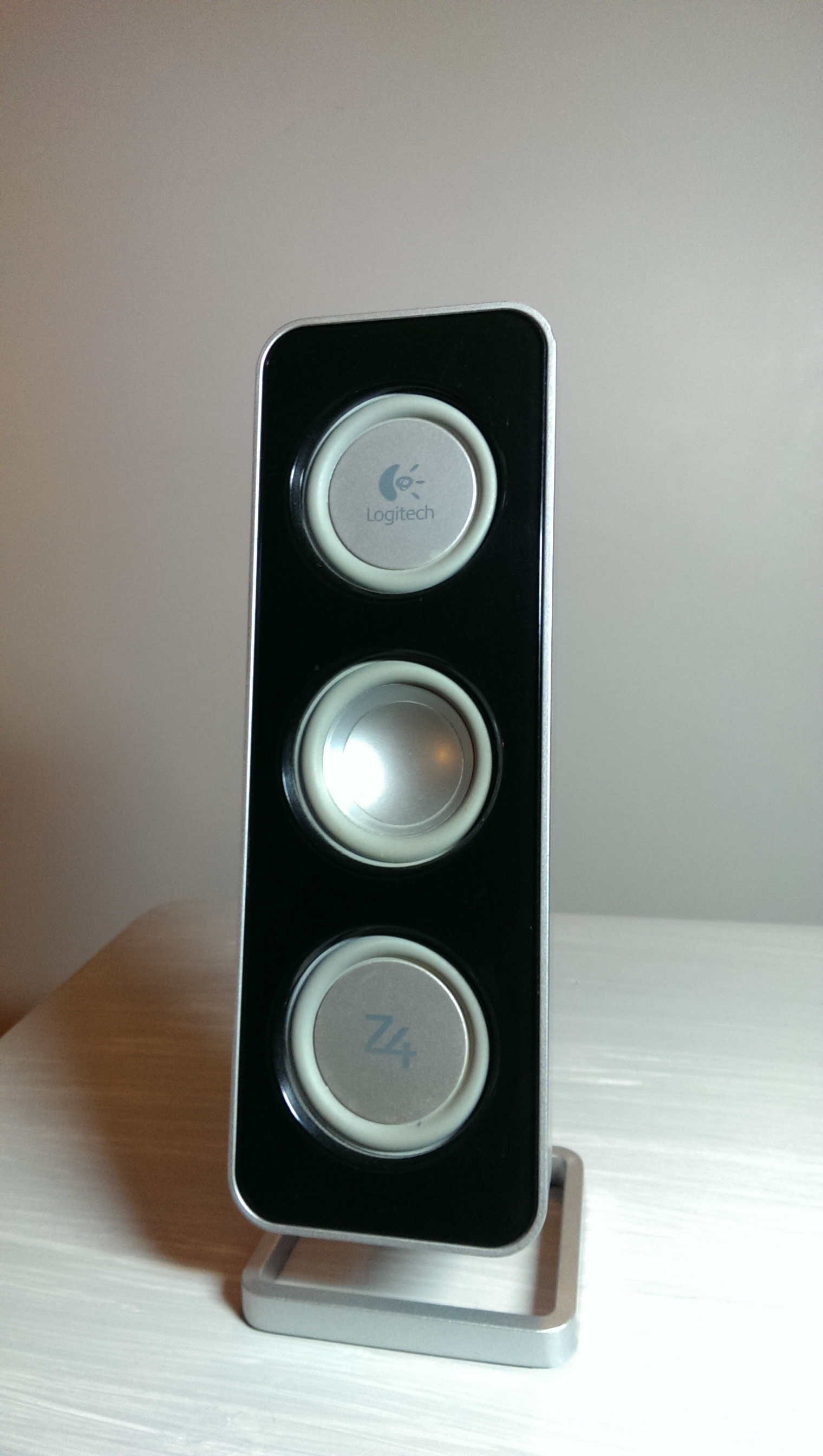 Logitech Z4 satellite speaker.